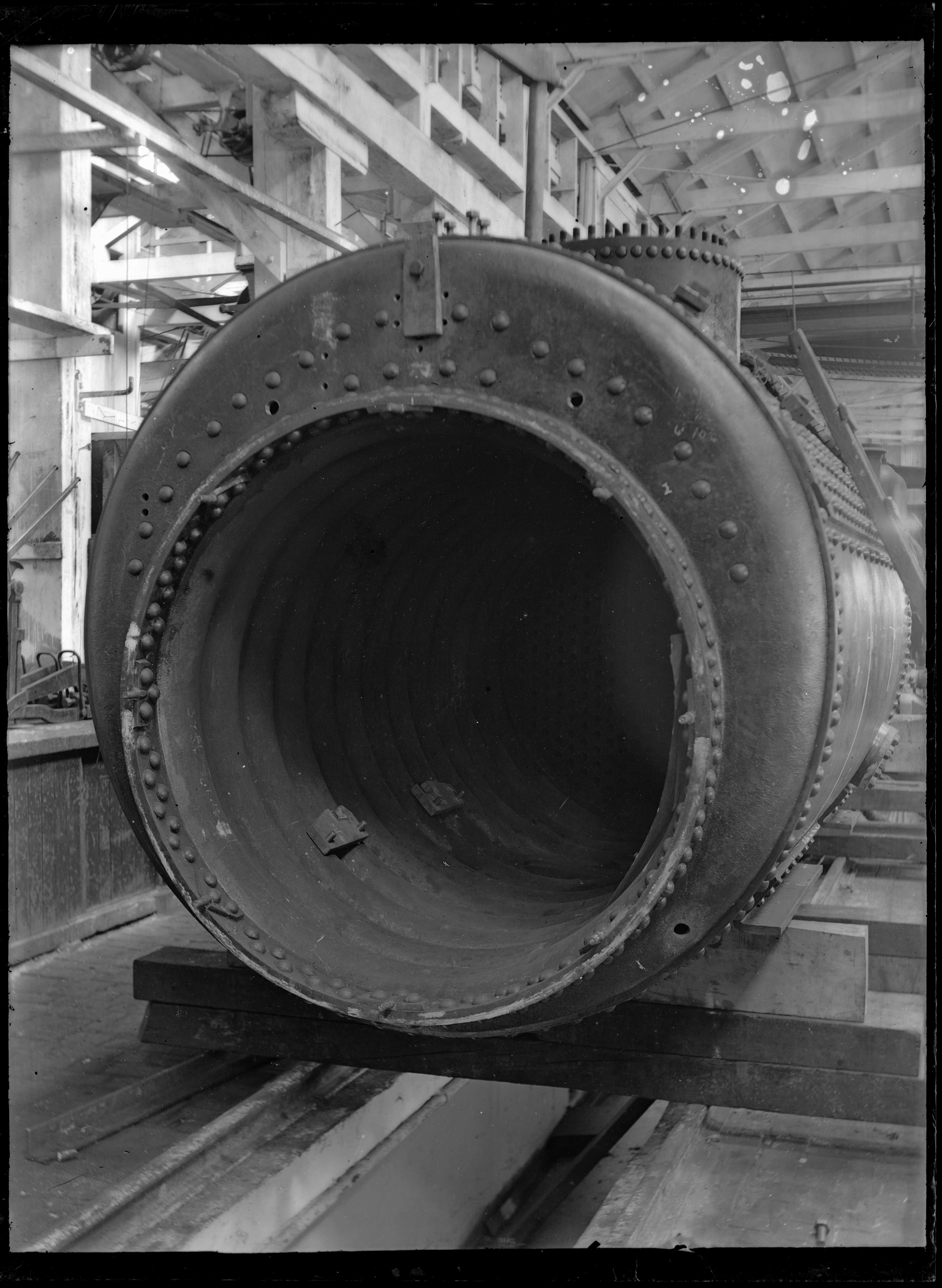 Locomotive boiler in the Petone Railway Workshops, photographed by A P Godber.